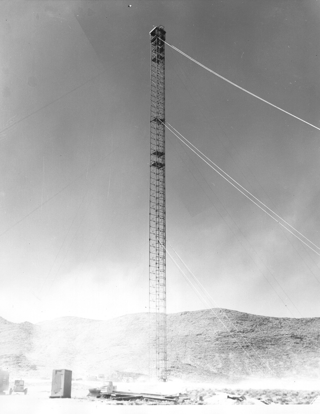 Operation Plumbbob. SMOKY shot tower.